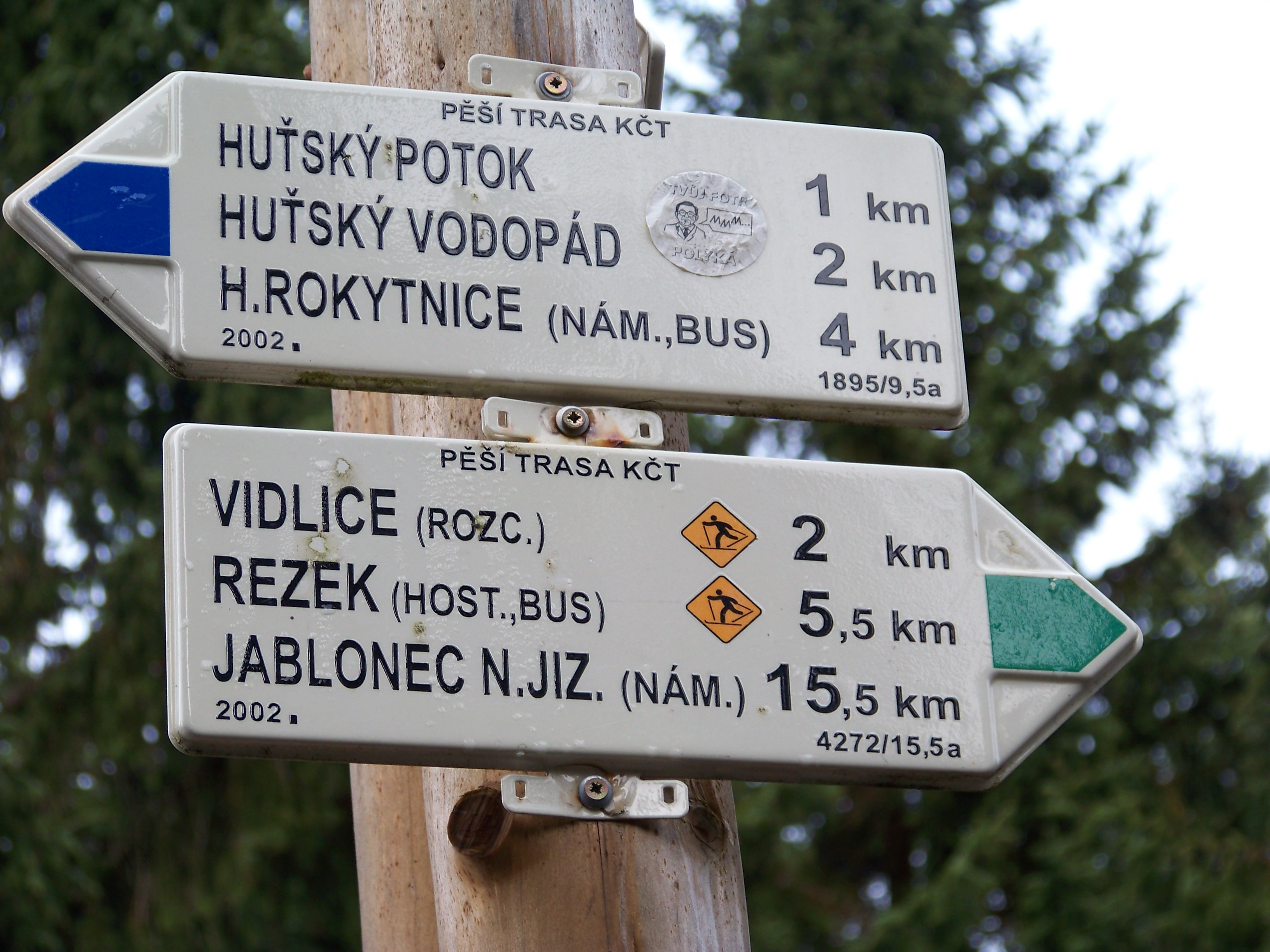 Rokytnice nad Jizerou-Rokytno, Semily District, Liberec Region, the Czech Republic. A hiking fingerpost under Dvoračky.